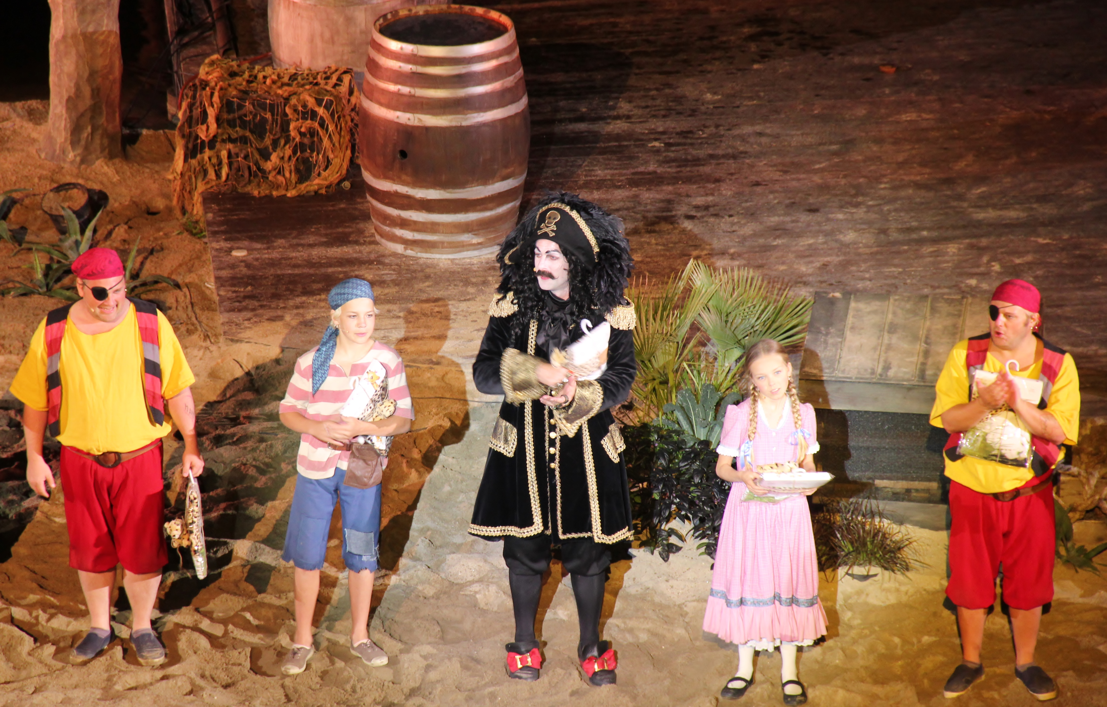 Captain Sabertooth, some of the main cast.